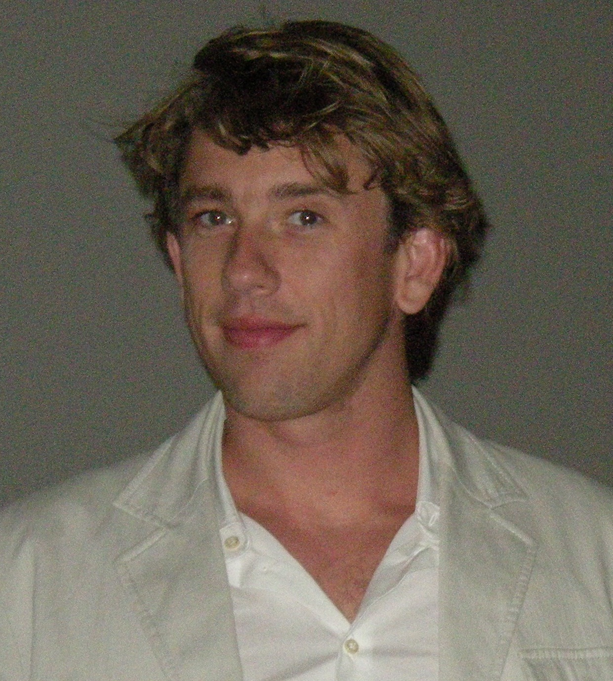 Waldemar Torenstra attending a showing of the film Zomerhitte (Summer Heat). Seattle International Film Festival, Seattle, Washington, Seattle, Washington.